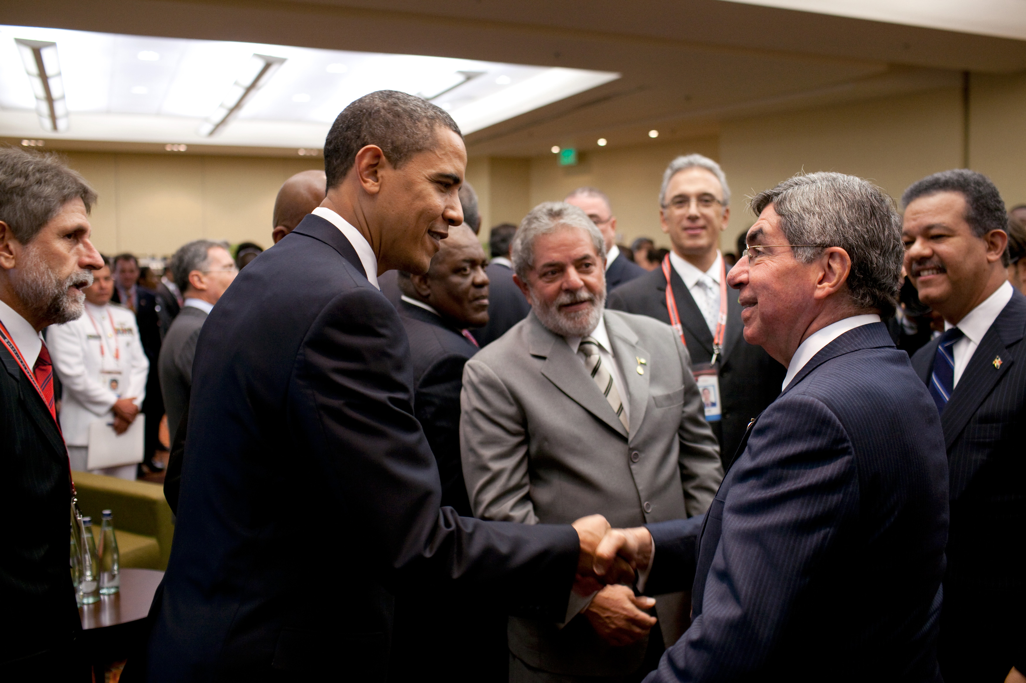 United States President Barack Obama greets Costa Rica President Óscar Arias Sánchez during a reception at the Summit of the Americas in Port of Spain, Trinidad on 17 April 2009. Looking on between them is President of Brazil, Luiz Inácio Lula da Silva, while the President of the Dominican Republic, Leonel Fernández, is to the right.